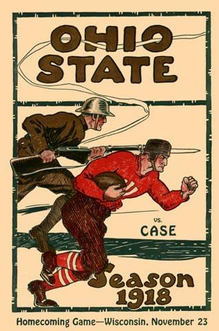 11/9/1918 Ohio State vs Case football Case Western Reserve Spartans football